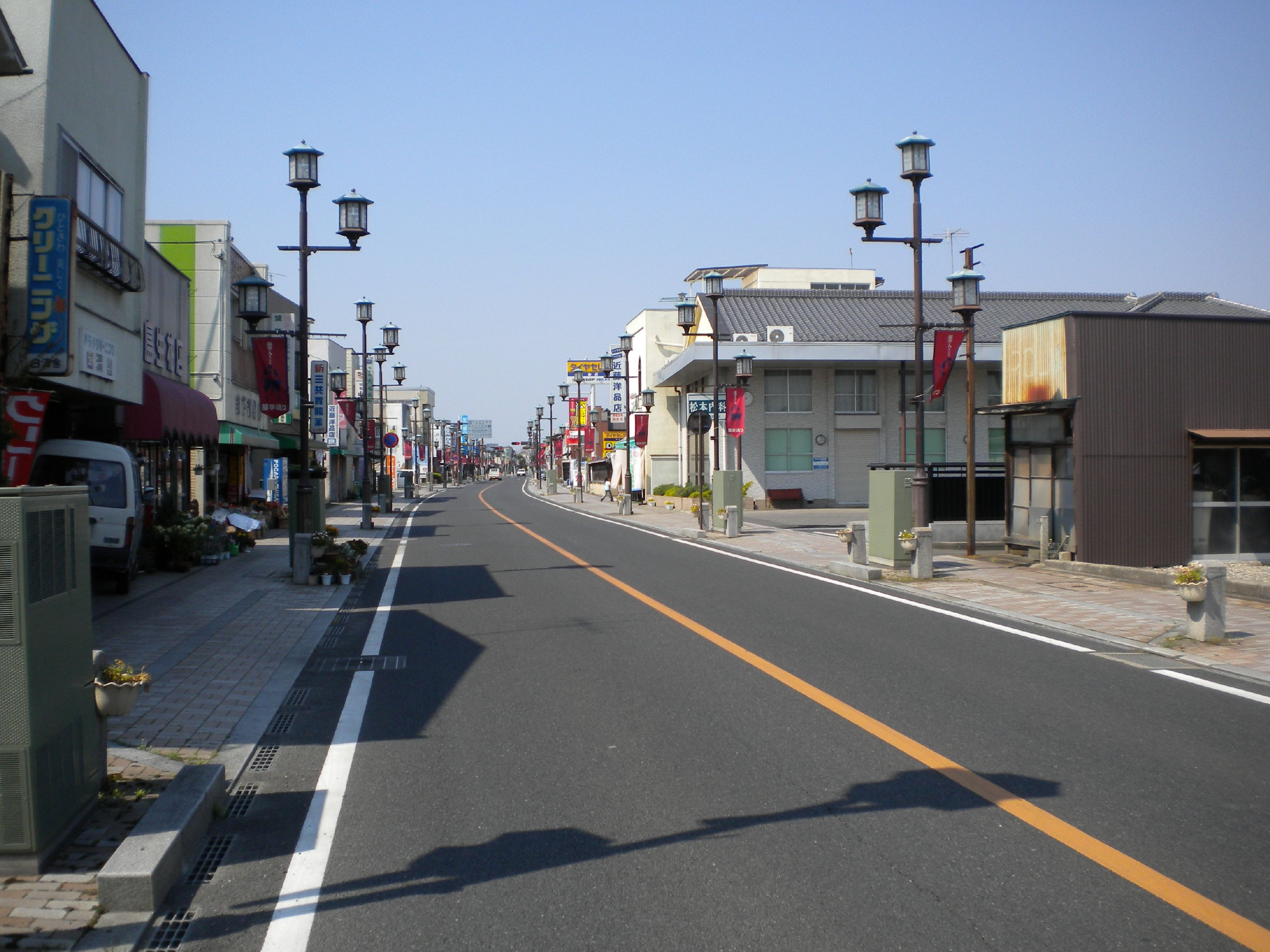 The Tochigi Prefectural Road Route 18 in Chuocho, Mibu Town